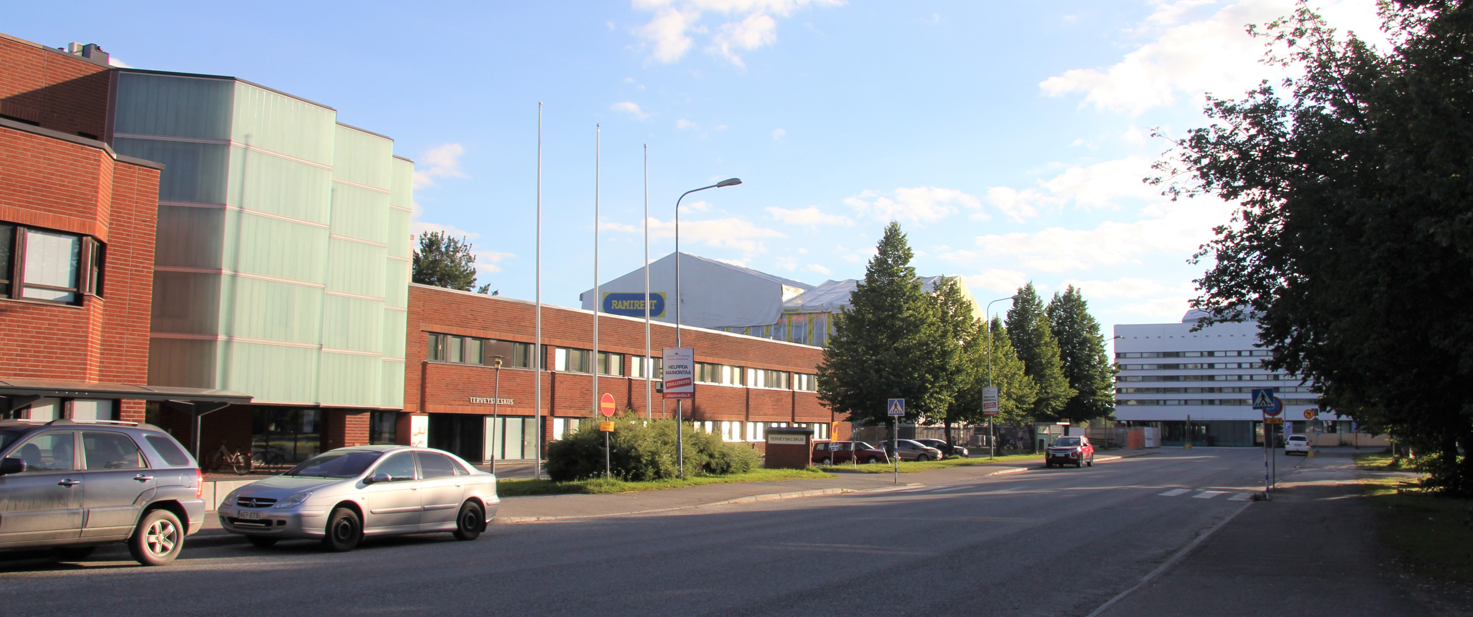 Iisalmi Health Center is a public health care center in Iisalmi, Finland. Iisalmi Hospital (white building on the right side of the picture) is located nearby.